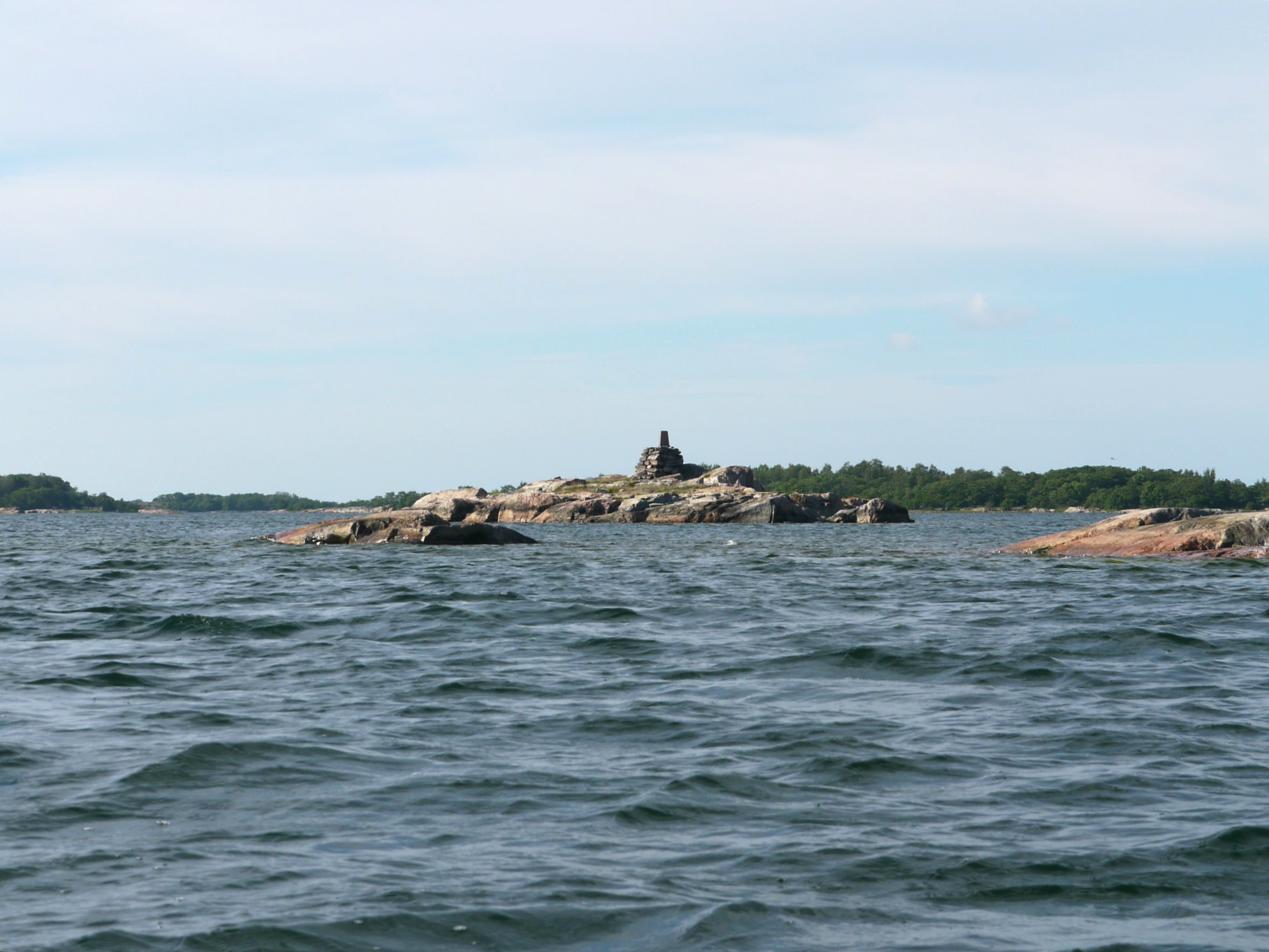 Gravstensgrund: a small skerry in Åland, at the border between Kumlinge and Brändö (just in Kumlinge territory) where in an ice cold november night in 1773, ten people, amongst them the Swedish 27-year old lieutenant Gustaf Adolph Taube, sailed in an open sailing boat from Stockholm back to Turku and were smashed by a southeastern storm on this rock and capsized. Only two men survived this adventure and could be saved two anxious days later. NB The island was at that time much smaller than nowadays, because the land rises almost a meter every century.